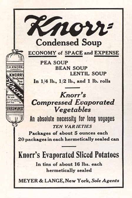 Page of advertisements, 1913. Detail: "Knorr" soups.